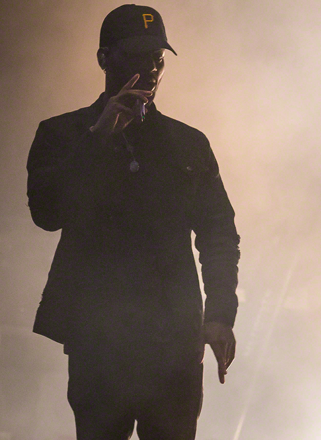 Bryson Tiller at the minor stage during Stavernfestivalen in Stavern on 09. July 2016. Lineup:Bryson Tiller (vocal)